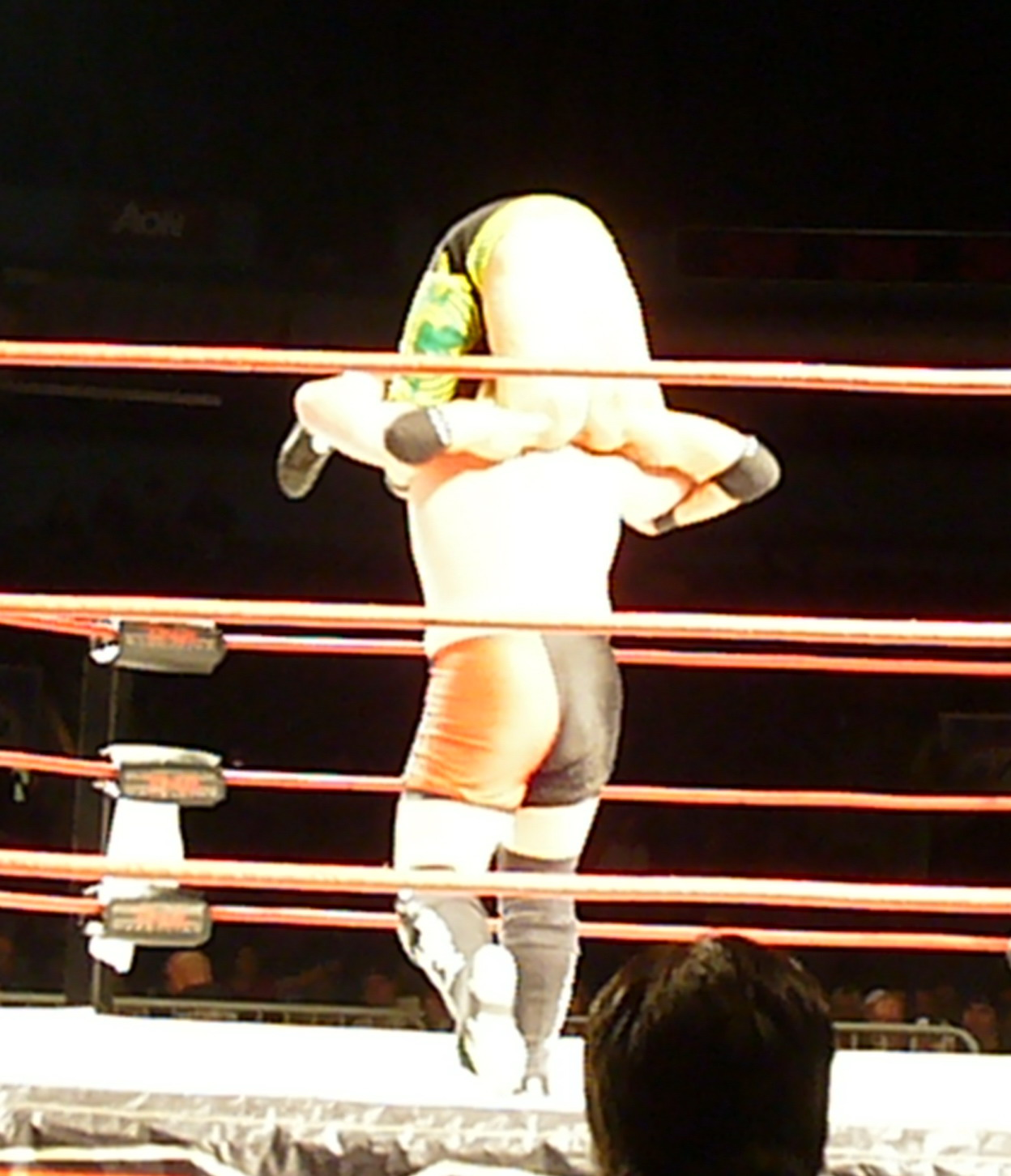 Samoa Joe (bottom) about to use a muscle buster on Christian Cage